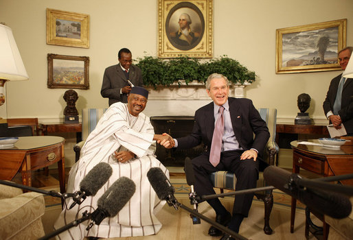 President George W. Bush and Mali President Amadou Touré meet in the Oval Office Tuesday, Feb. 12, 2008, at the White House. Said President Bush upon welcoming his fellow leader, "I was touched by the President's concern about the life of the average citizen in Mali... This is a country that's committed to the rights of its people, and we're proud to be standing side-by-side with you." White House photo by Eric Drape.